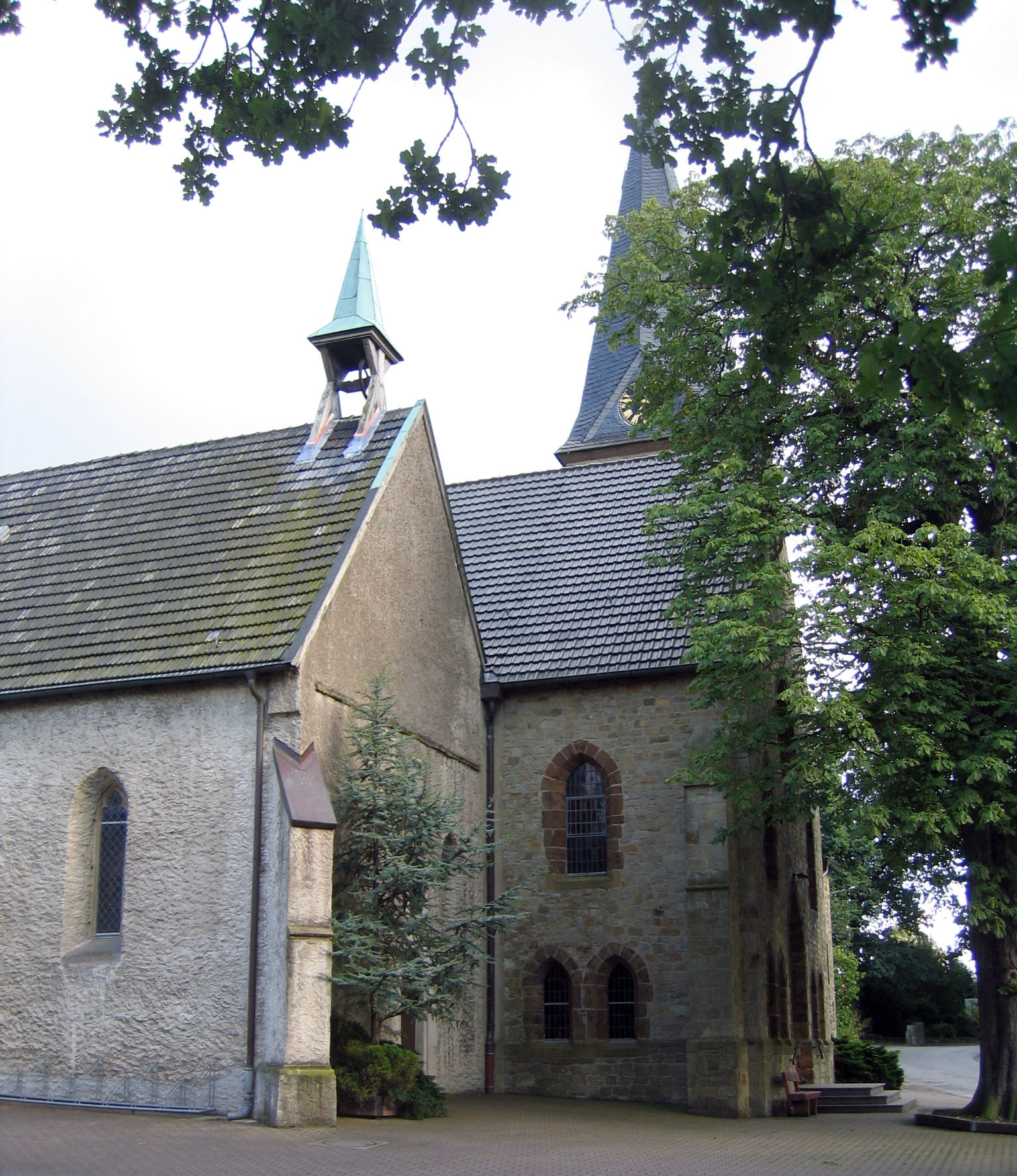 The Church of St. Michael in the town of Rödinghausen-Westkilver, Germany.